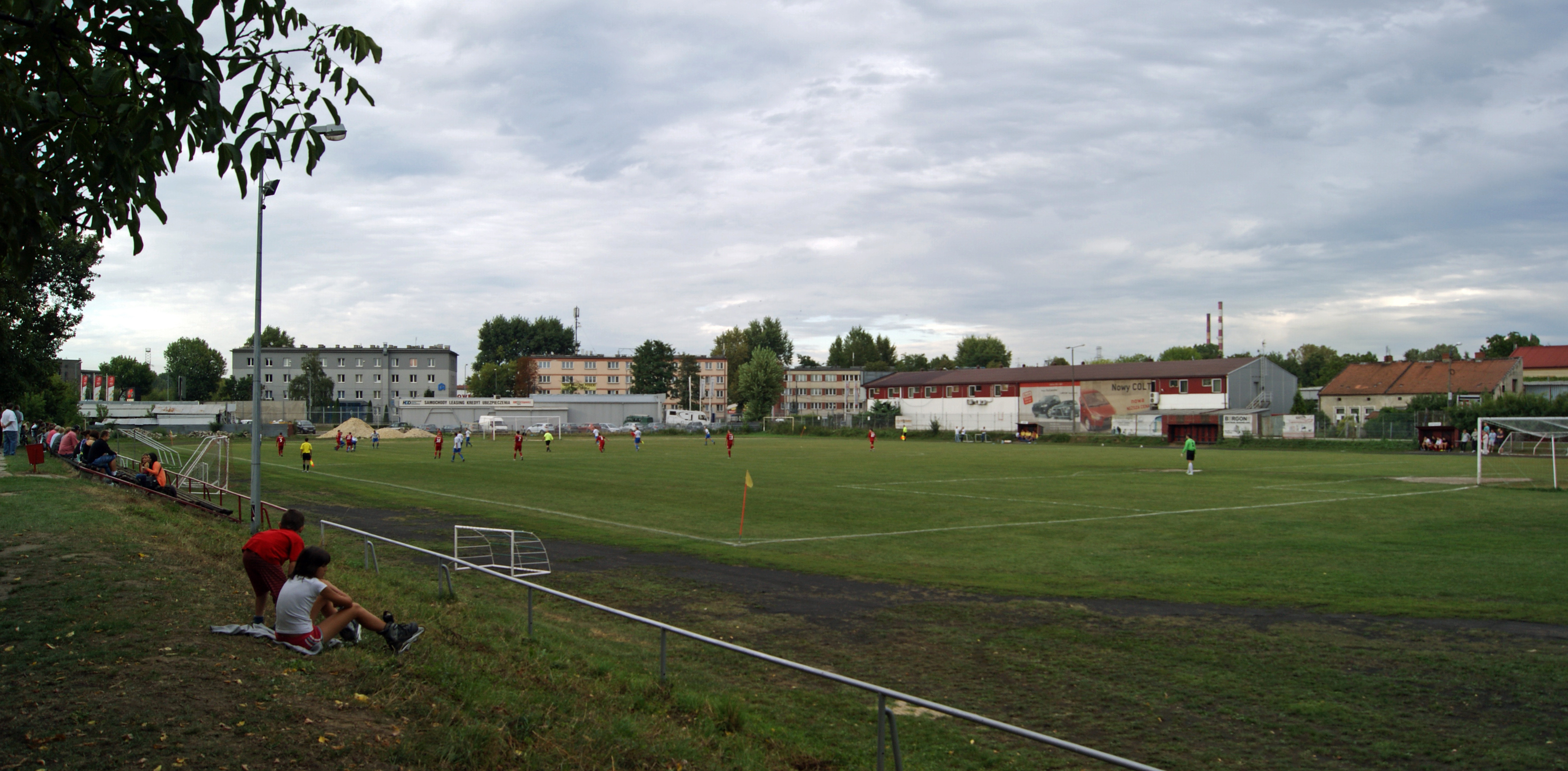 SC Podgorze stadium, 21 Dekerta street, Krakow, Poland